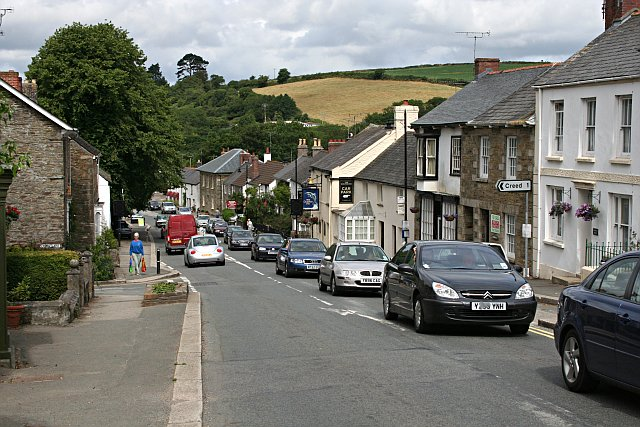 Grampound with Creed lies in the centre of Cornwall, sheltered in the beautiful valley of the River Fal. Settled since prehistoric times, from within the ancient parish of Creed and the old manor of Tybesta, Grampound grew as the main crossing place on the Fal, a focus for travellers and traders moving betwen west Cornwall and England. Thus Grampound became one of the most important towns in Cornwall with a rich and vibrant history. The main A390 road now runs through the town, bringing with it the problems of traffic, but Grampound remains a beautiful location with a rich community life and spirit.